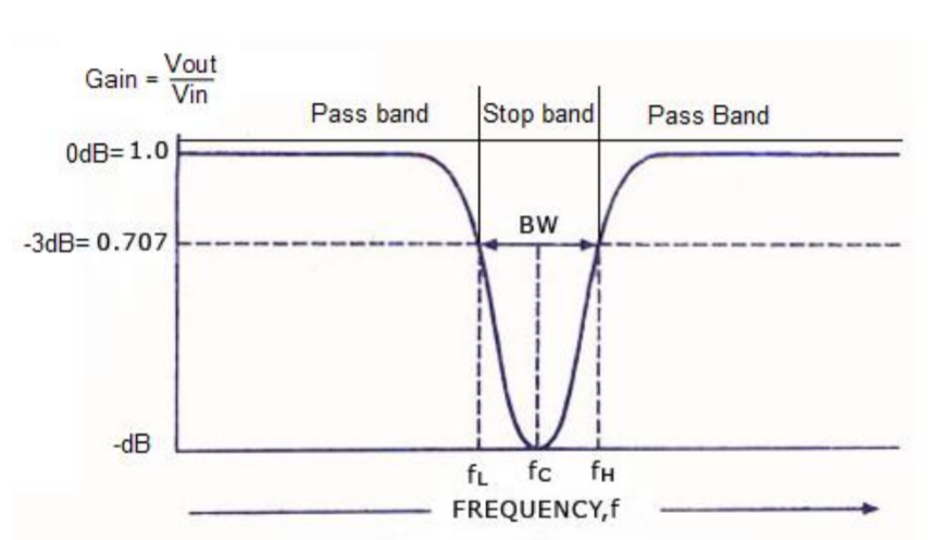 Twwin T active notch filter frequency response